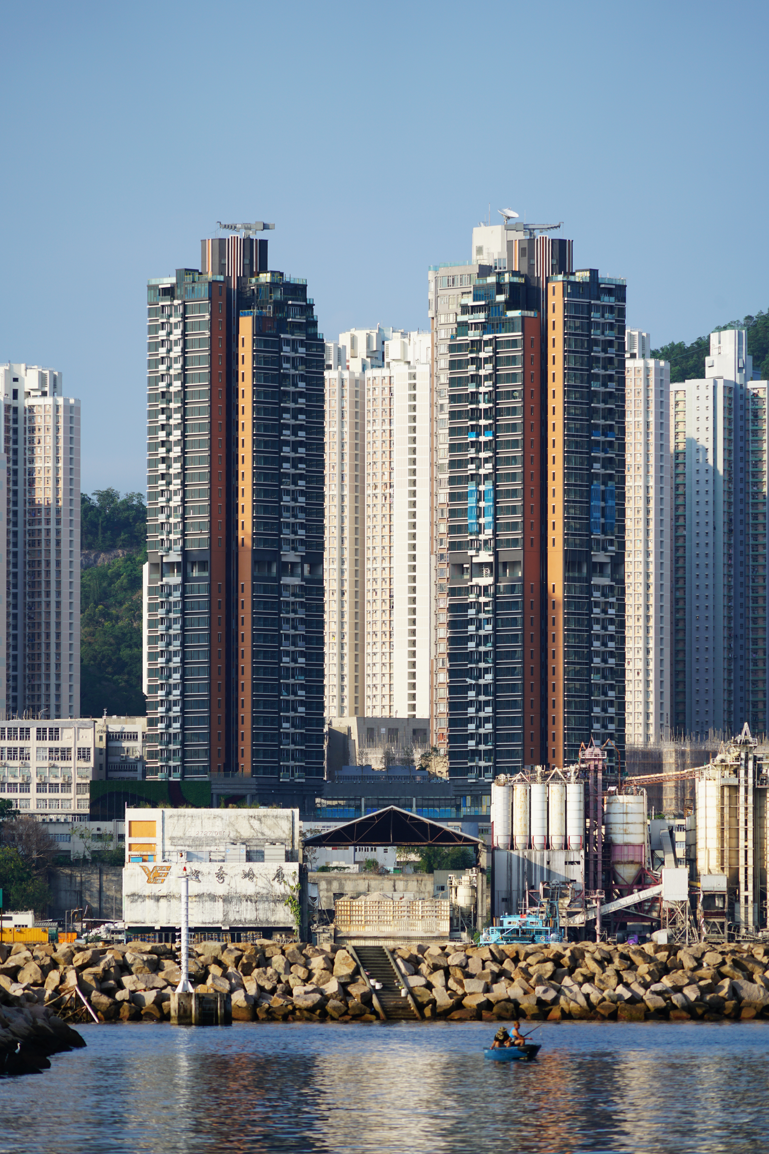 Maya, Hong Kong.